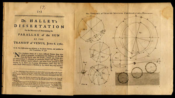 Diagram from Edmund Halley 1678 paper to the Royal Society ("Dr. Halley's Dissertation of the Method of Determining the Parallax of the Sun by the Transit of Venus, June 6, 1761") showing how the Venus Transit could be used to calculate the distance between the Earth and the Sun.